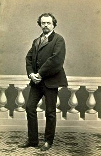 Description: Leone Giraldoni photographed in 1865 (carte de visite) Photographer: Sorelle Marsini, Lucca Source: Istituzione Casa della Musica, Parma